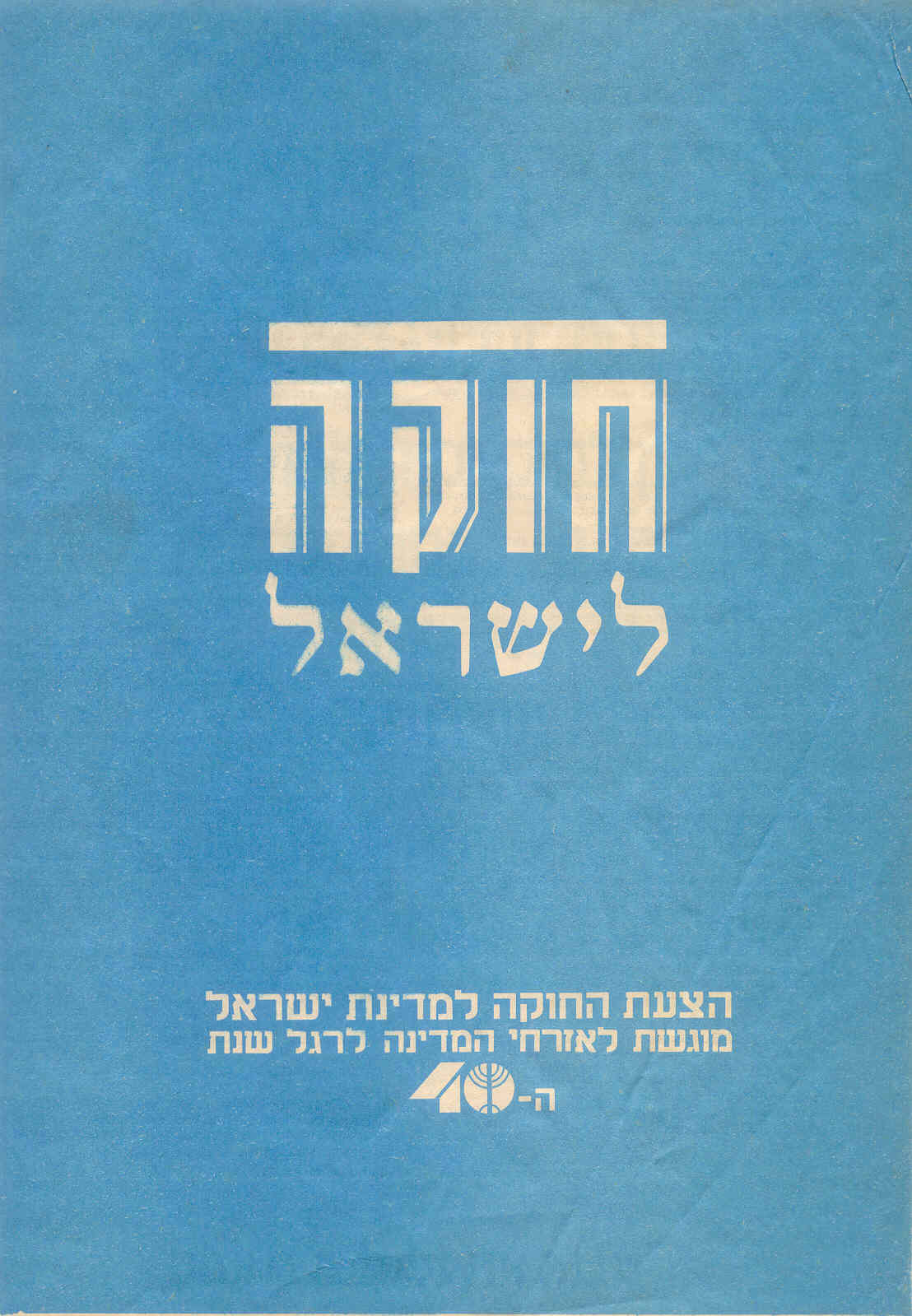 Cover Page of "Huka Le’Israel Project" (Constitution for Israel Project). A scanned copy.